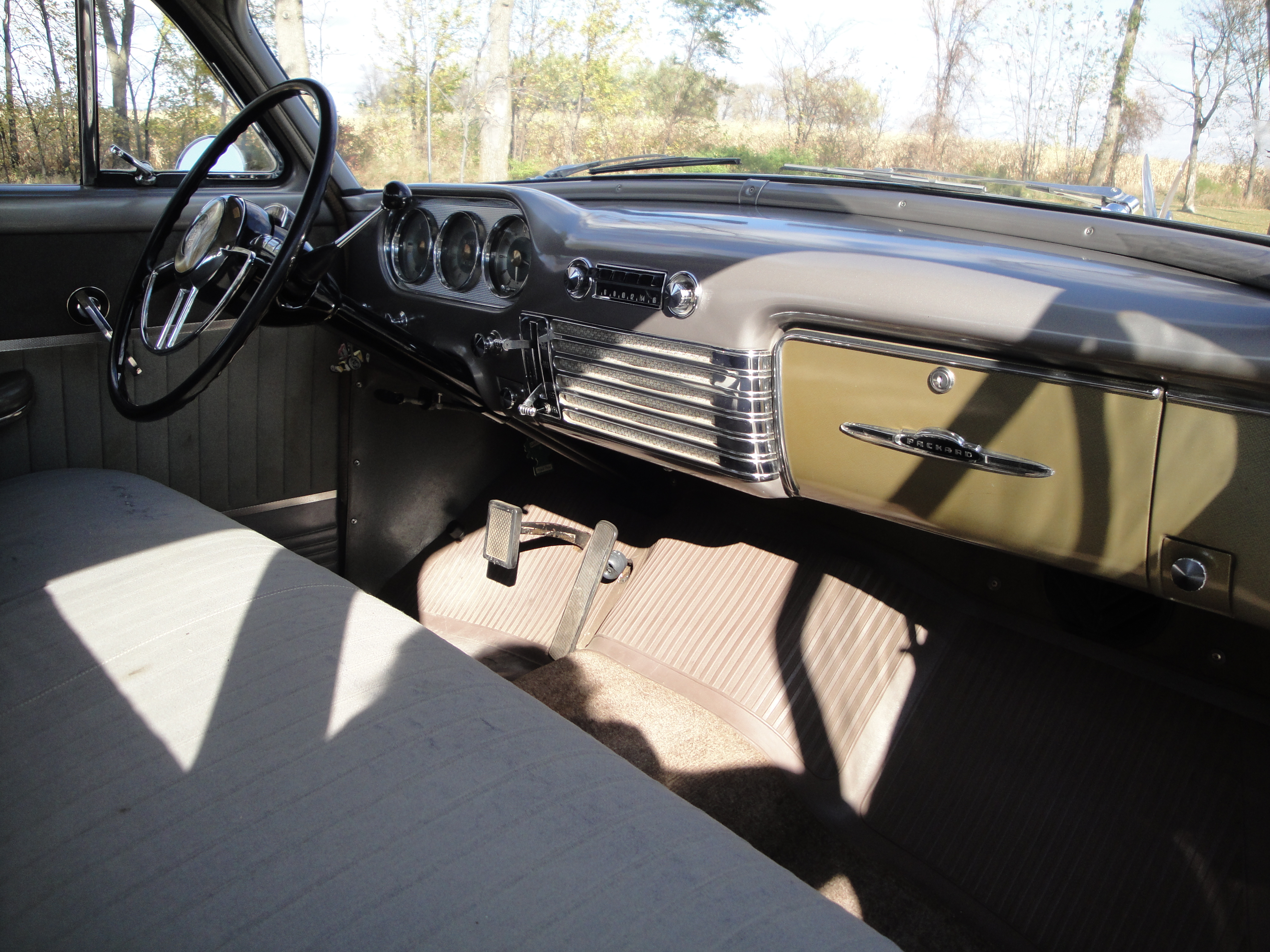 Now that Bud is mostly done with Ruby, his and Sharon's 52 Buick, he has started some crazy talk about selling his 51 Packard. I asked if I could get some pictures before the Packard is gone.